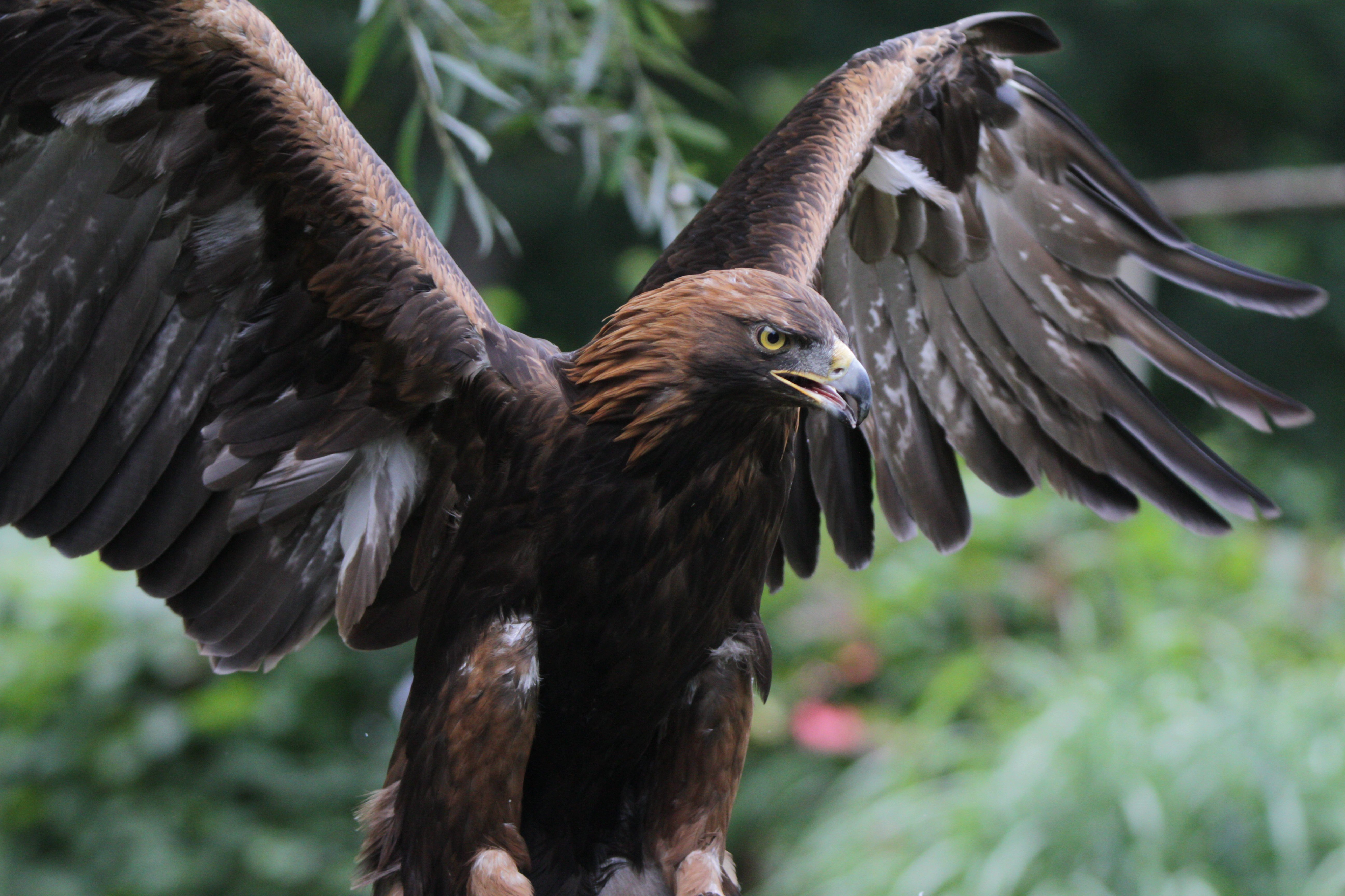 Aquila chrysaetos daphanea, Tierpark Hellabrunn.